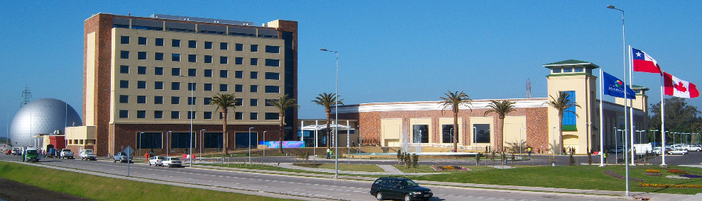 Casino Marina del Sol